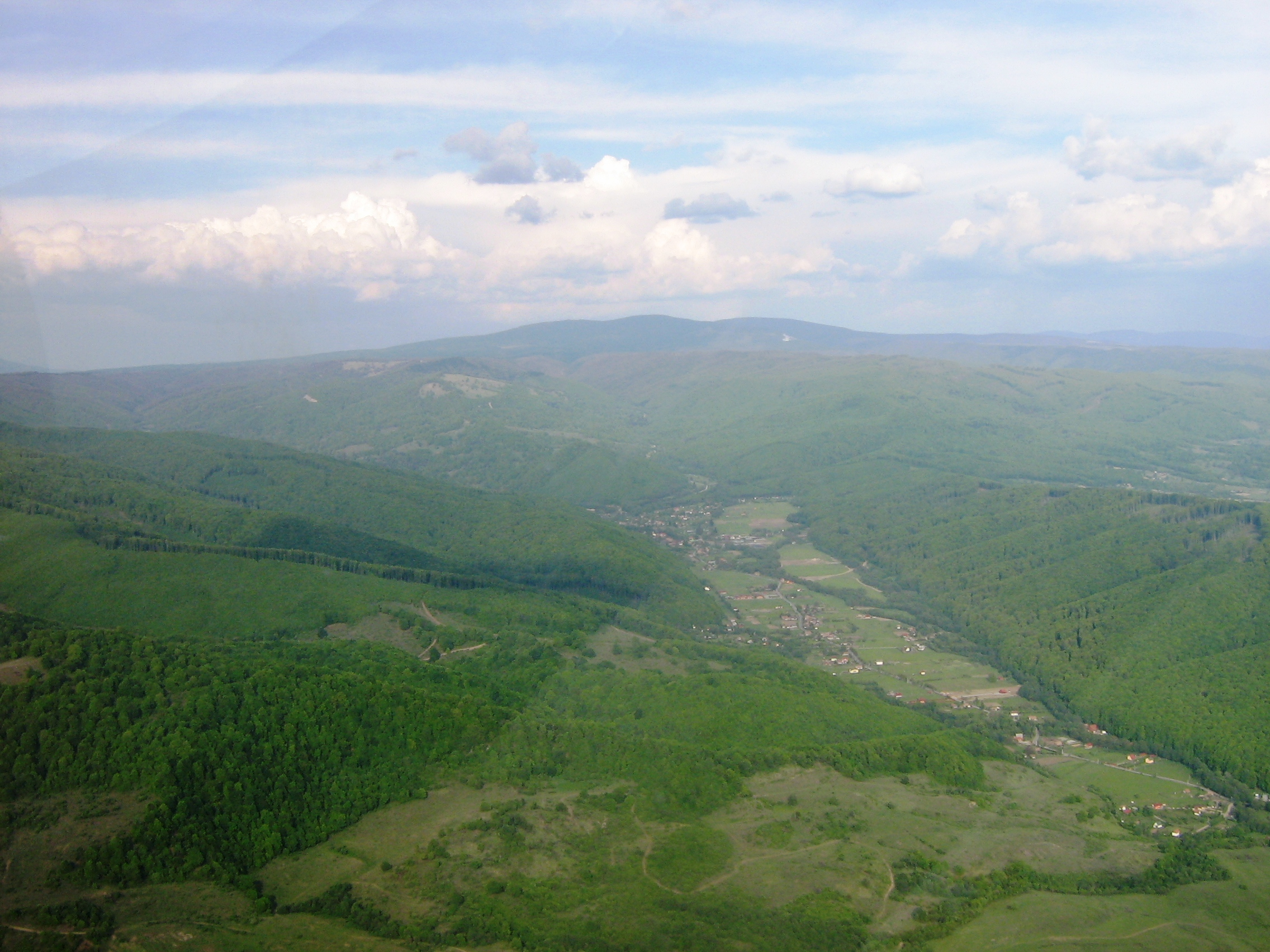 Vármező (Cămpu Cetății), village in Székely Land, Romania